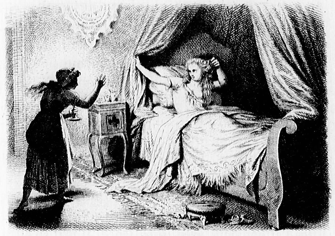 Illustration of The Red and the Black (1830) by Stendhal (1783-1842)